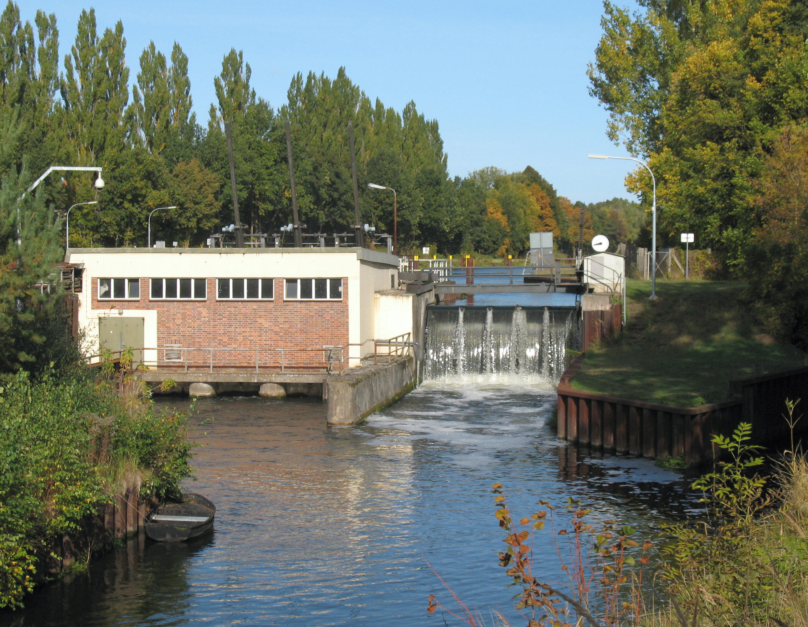 Weir of Voss Channel in Liebenwalde-Bischofswerder in Brandenburg, Germany